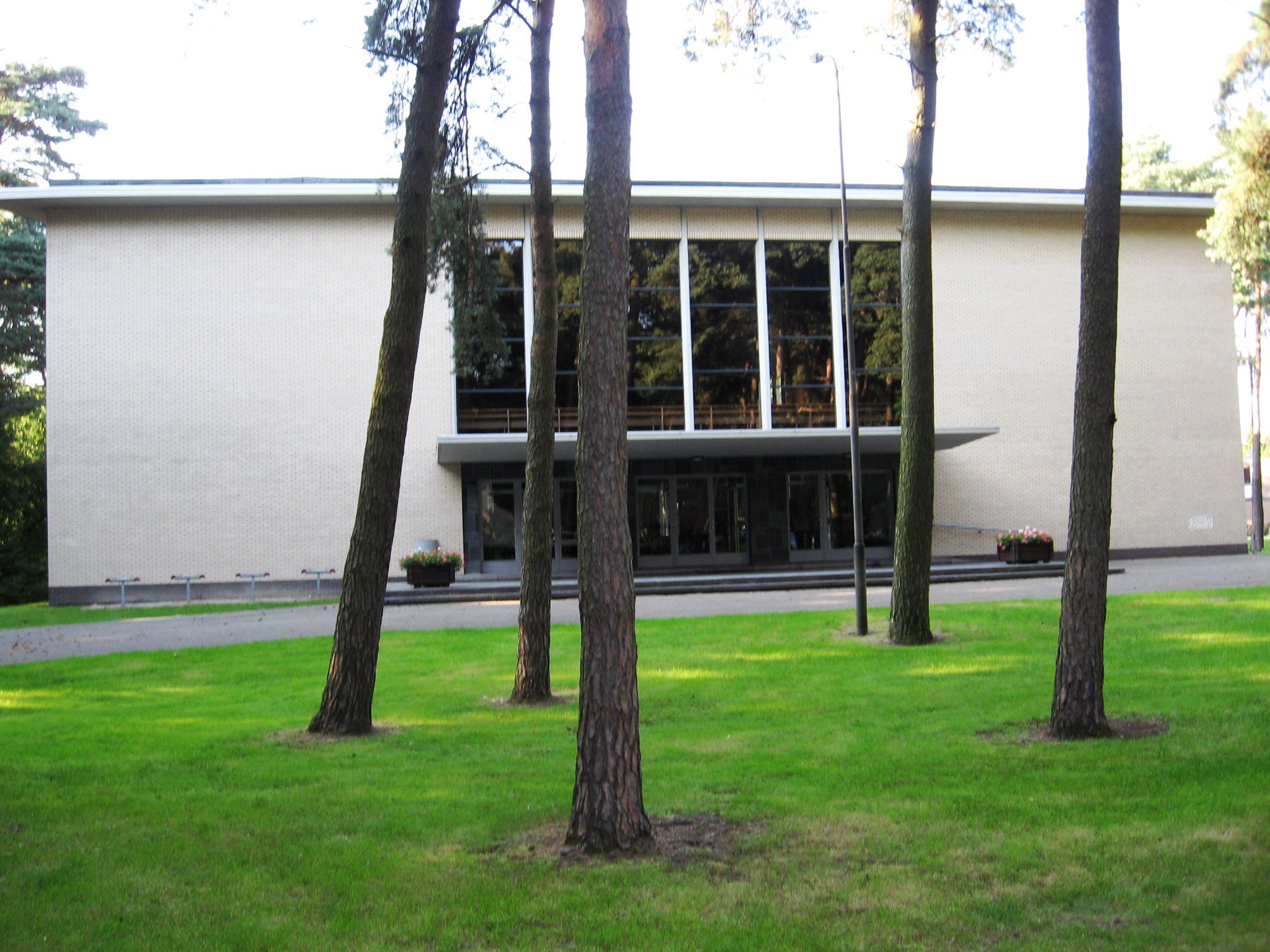 Church of Our Lady of Fatima in Genk (Bret-Gelieren), Limburg, Belgium